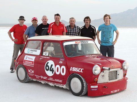 Photograph of the 2012 Project 64 Land Speed Record team taken at Bonneville.